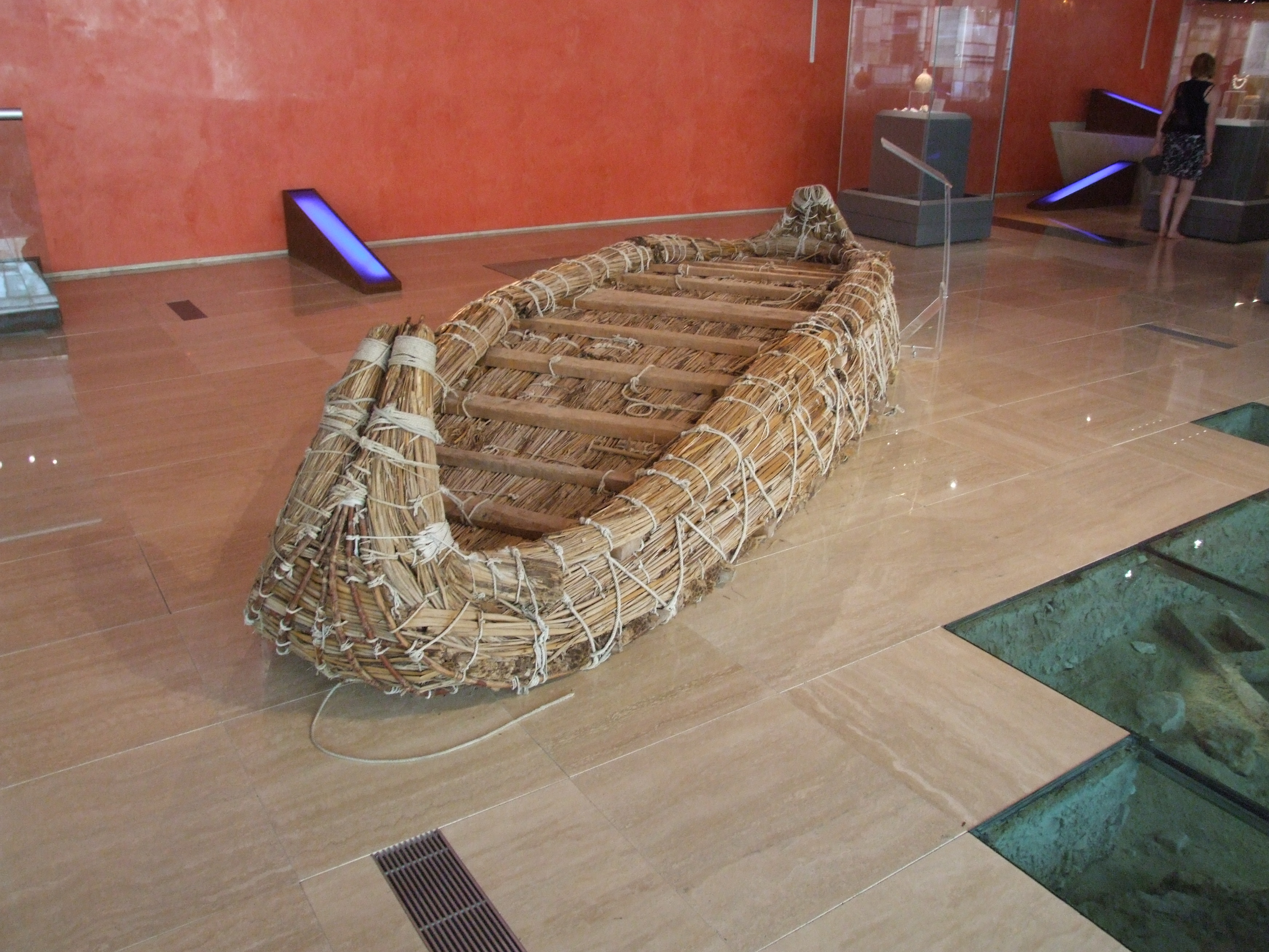 Treasures of THALASSA Museum, Ayia Napa